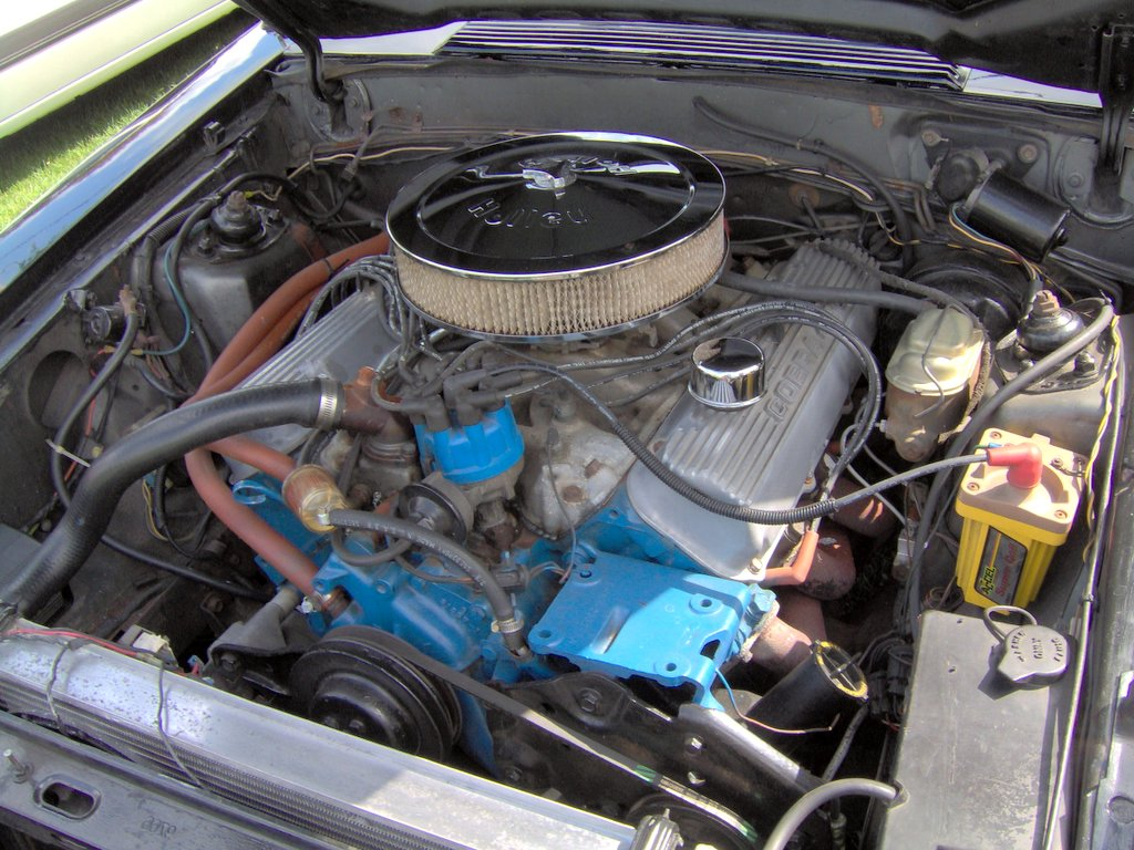 Ford Cobra 460 "385" big-block crate engine in a Ford Mustang